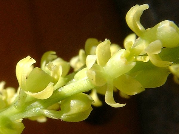 Amblostoma tridactylum